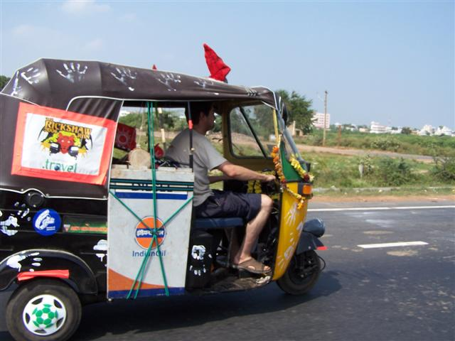 A contestant in the 2006 Rickshaw Run